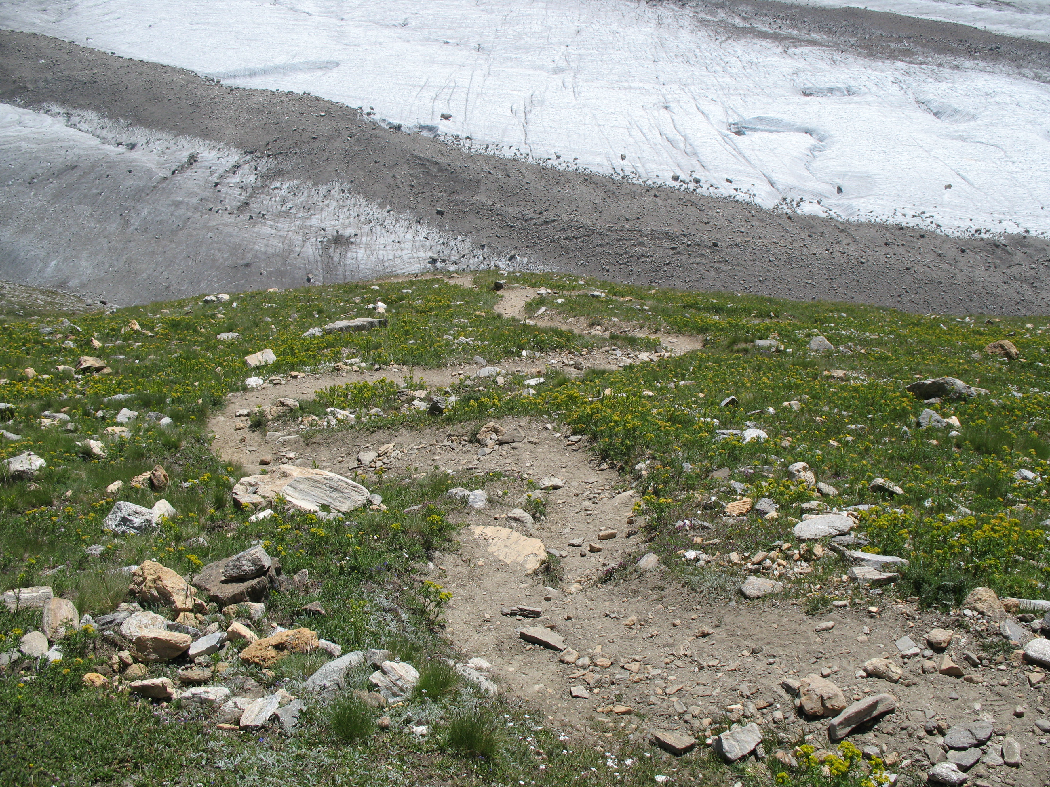 Gornergrat / Zermatt, Switzerland